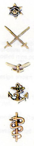 Ribbon bar emblem of the Bar and Arm of the Service insignia for the ribbon of the iPhrothiya yeBhronzi - Bronze Protea, post-nominal letters PB, awarded to persons who have distinguished themselves by leadership or meritorious service and devotion to duty